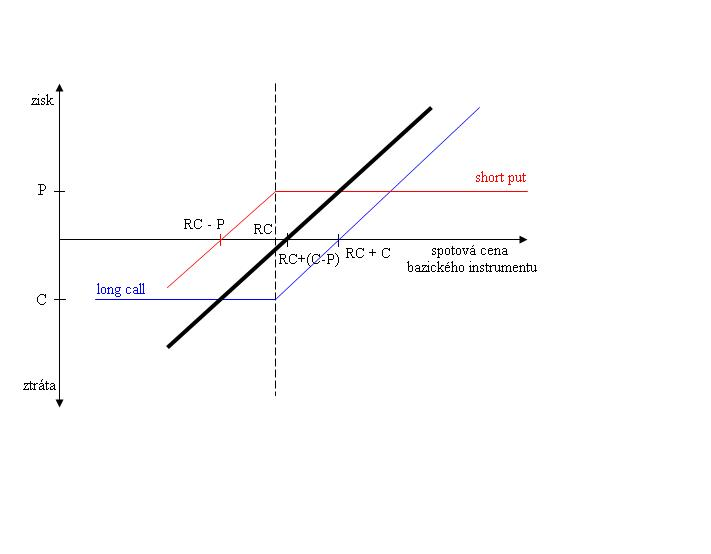 SYNTHETIC LONG FORWARD